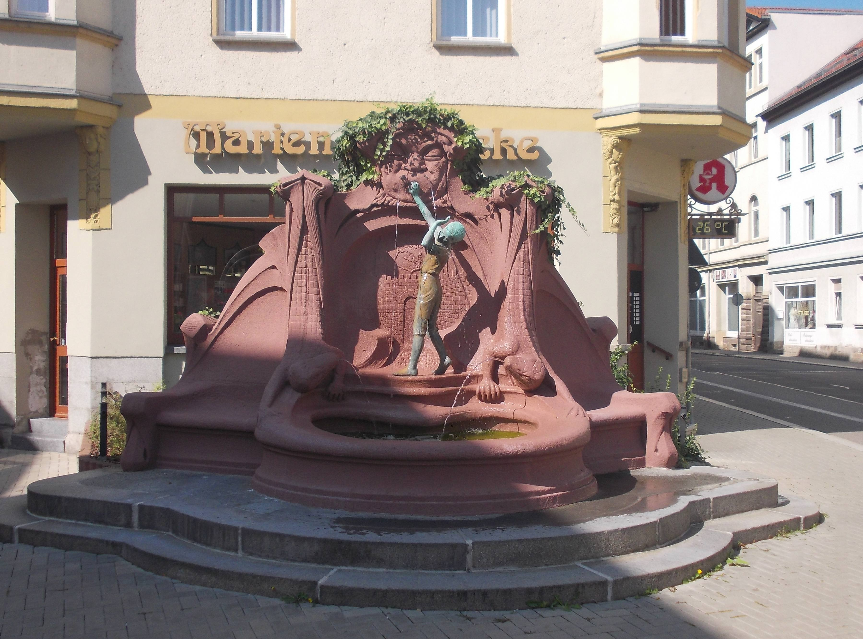 Fountain at Beuditzstrasse in Weissenfels (district: Burgenlandkreis, Saxony-Anhalt)